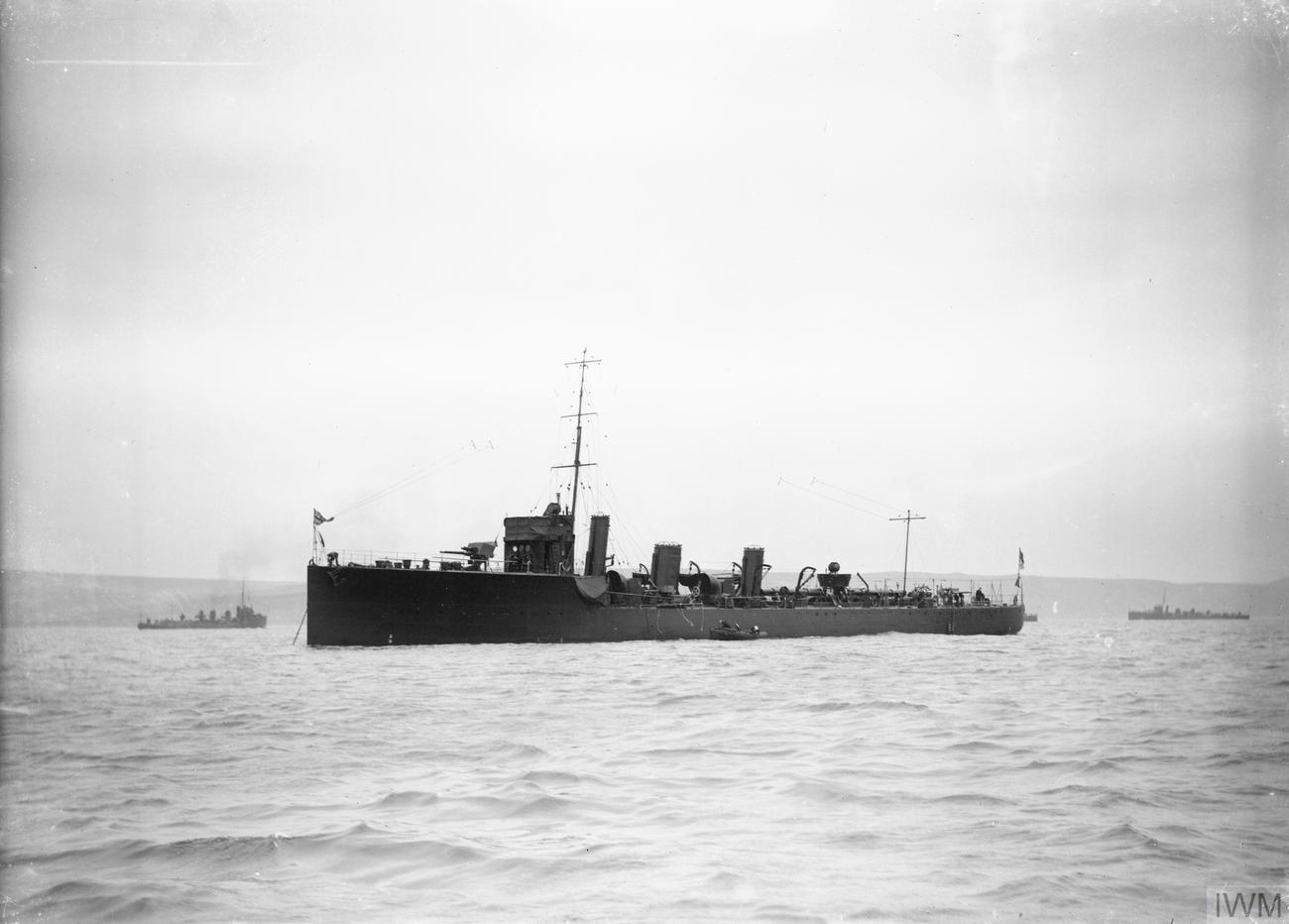 Photograph of British Acorn class destroyer HMS Comet.